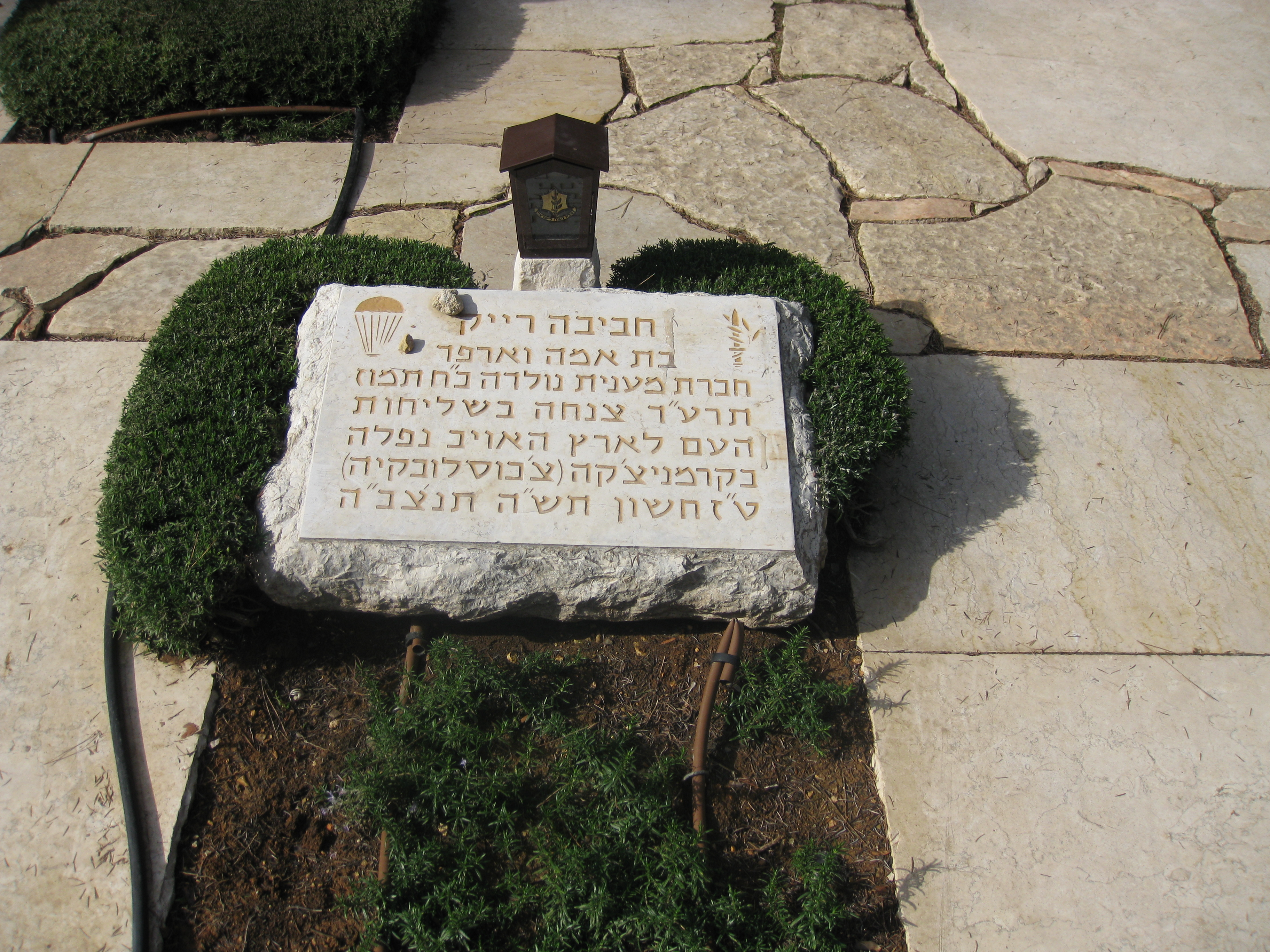 Memorial for the Yeshuv Paratroopers